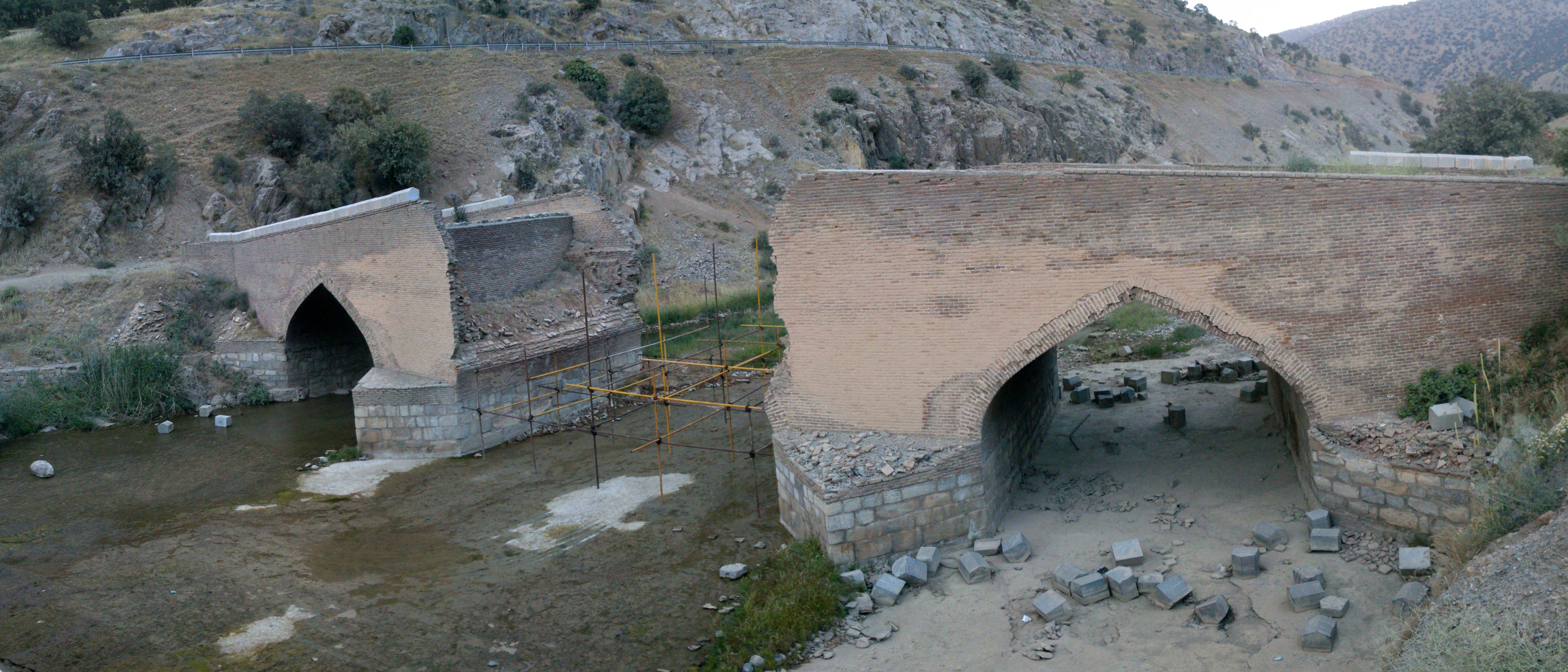 Garran historical bridge, Marivan, Iran